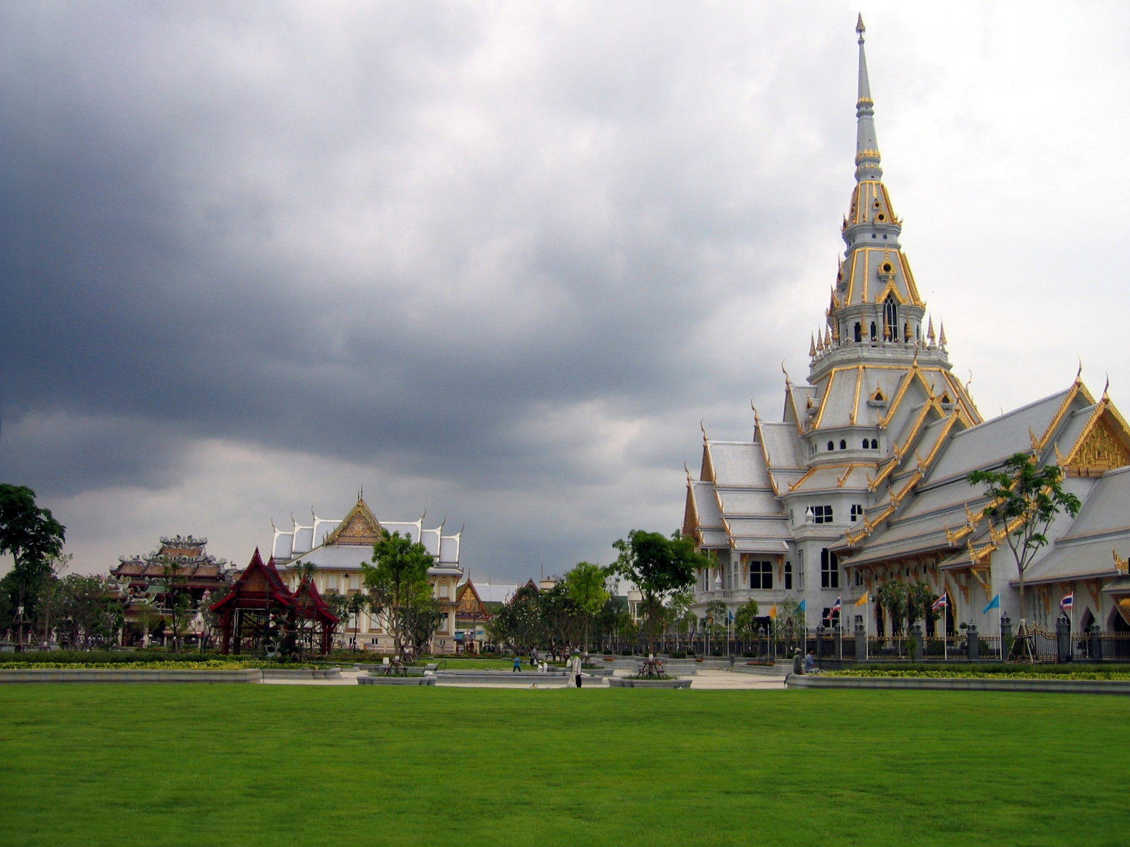 View of Wat Sothonwararam Worawihan